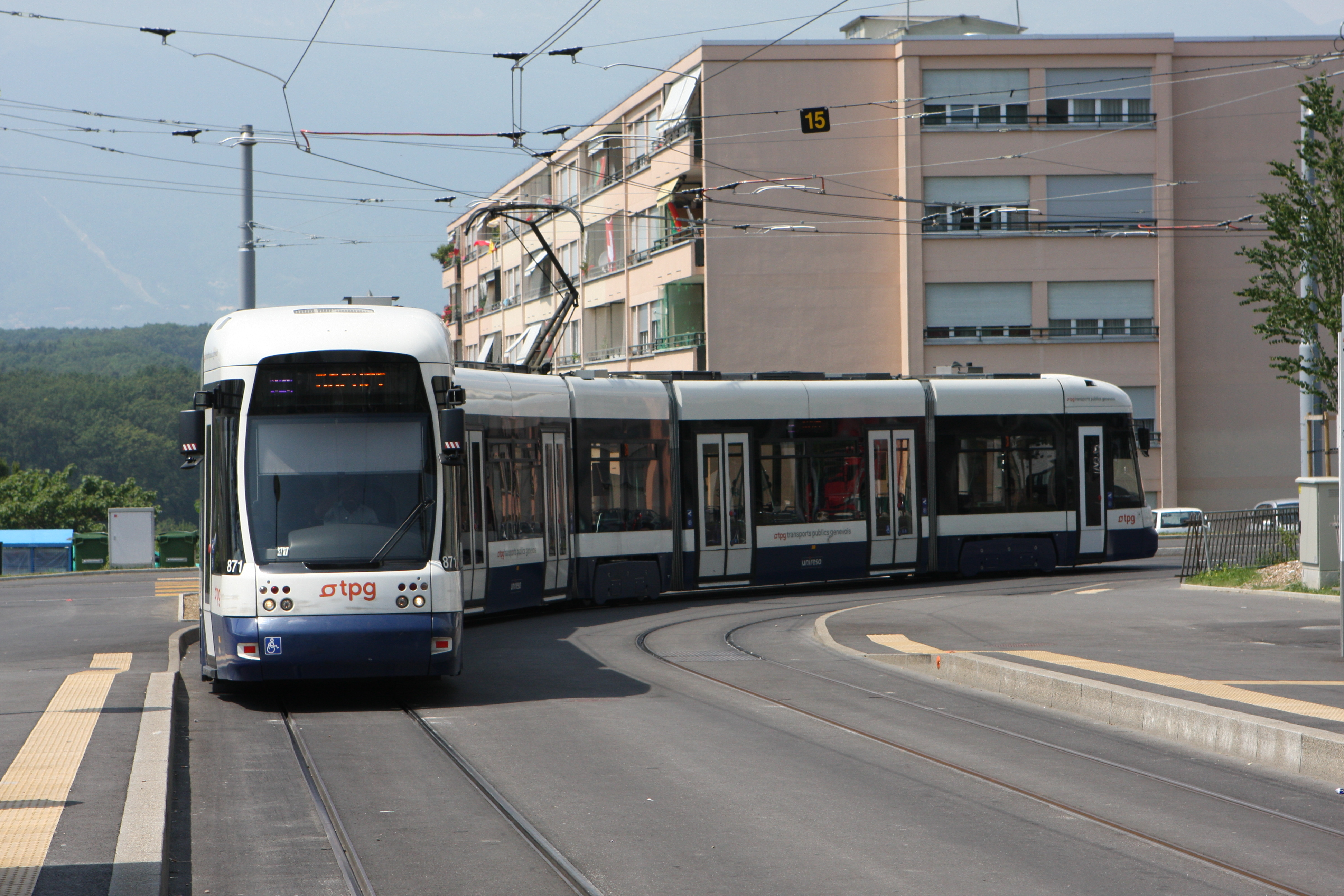 "Bombardier Flexity Outlook Cityrunner" tram in Geneva